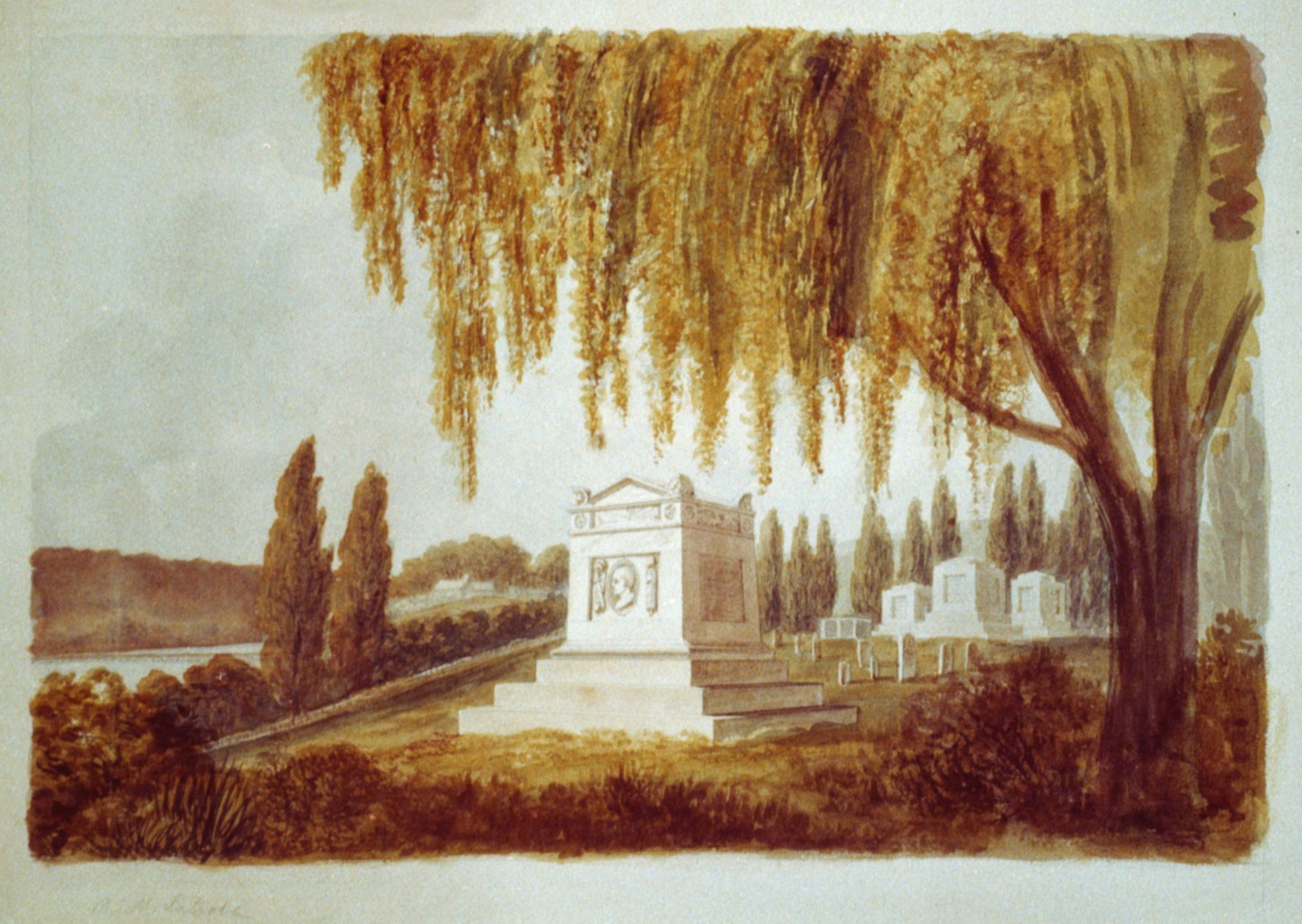 LOC metadata Title: Architectural drawing for a monument for Vice President George Clinton, Congressional Cemetery, Washington, D.C. Creator(s): Latrobe, Benjamin Henry, 1764-1820, architect Date Created/Published: 1812. Medium: 1 item : watercolor, ink, and wash ; in folder(s) 35 x 46 cm. Summary: Preliminary drawing showing monument as perspective projection; rendering. Reproduction Number: LC-USZC4-51 (color film copy transparency) LC-USZCN4-110 (color film copy neg.) LC-USZ62-37029 (b&w film copy neg.) == Note the "graves" to the right - these appear to be in the design of the Congressional Cemetery Cenotaphs often attributed to Latrobe Uncropped version at Latrobe Clinton3b51634u.jpg